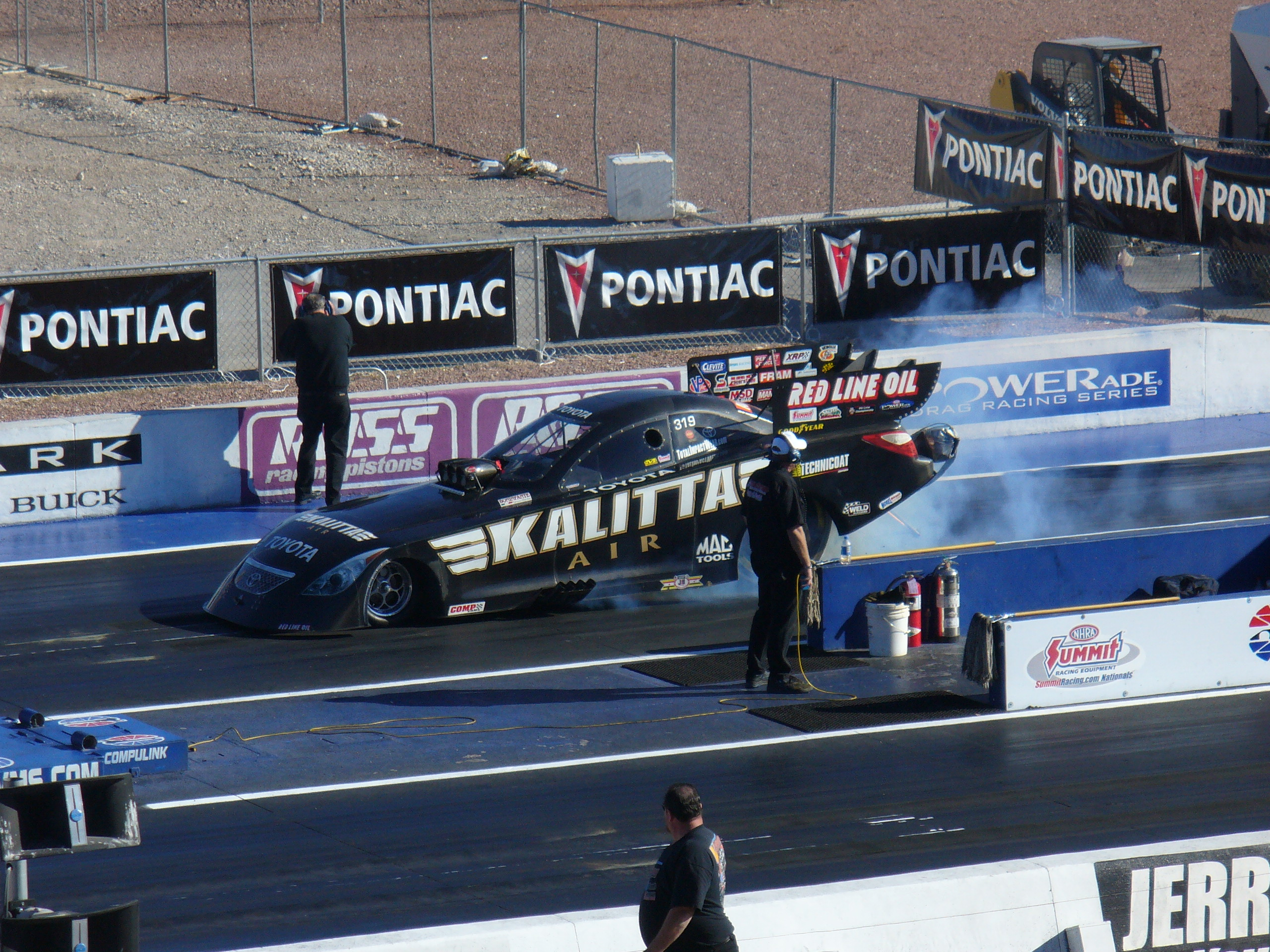 Funny Car driver Scott Kalitta, 46, died June 21 from multiple injuries suffered after his car went out of control and crashed in a high-speed racing accident at Old Bridge Township Raceway Park during the fourth and final round of qualifying at the Lucas Oil NHRA SuperNationals. Kalitta was extracted from his car by NHRA emergency services officials and transported to Old Bridge Township Hospital, where he was later pronounced dead. Kalitta, a two-time NHRA POWERade Drag Racing Series Top Fuel champion and one of only 14 drivers in NHRA history to earn victories in both premier nitro categories, earned 18 victories during his career, his last coming in Chicago in 2005 in Top Fuel. Kalitta earned most of his racing success in Top Fuel, where he claimed back-to-back world championship titles in 1994 and 1995. He retired from racing in 1997, sitting out most of two seasons before returning for a 10-race campaign in 1999. He sat out three more seasons following that brief stint and then returned again in 2003, joining cousin Doug as a second driver for the family's two Top Fuel dragsters. Kalitta started his pro career in Top Fuel in 1982, running limited events for four seasons before moving to Funny Car in 1986 for his first full season of competition. He returned to that category full time in 2006. He posted a runner-up finish two weeks ago in Chicago, his 36th career NHRA final-round appearance. Kalitta is survived by his father, legendary NHRA racer and team owner.